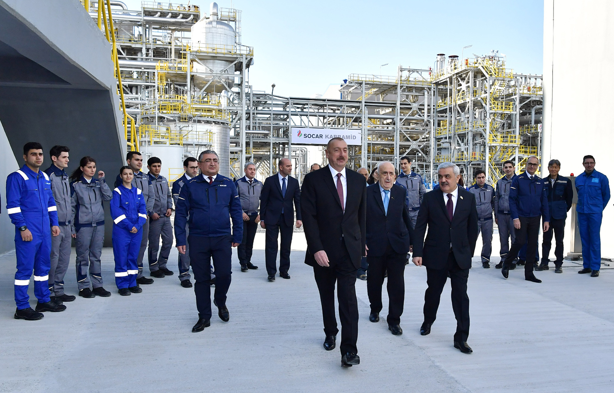 Ilham Aliyev attended inauguration of SOCAR carbamide plant in Sumgayit